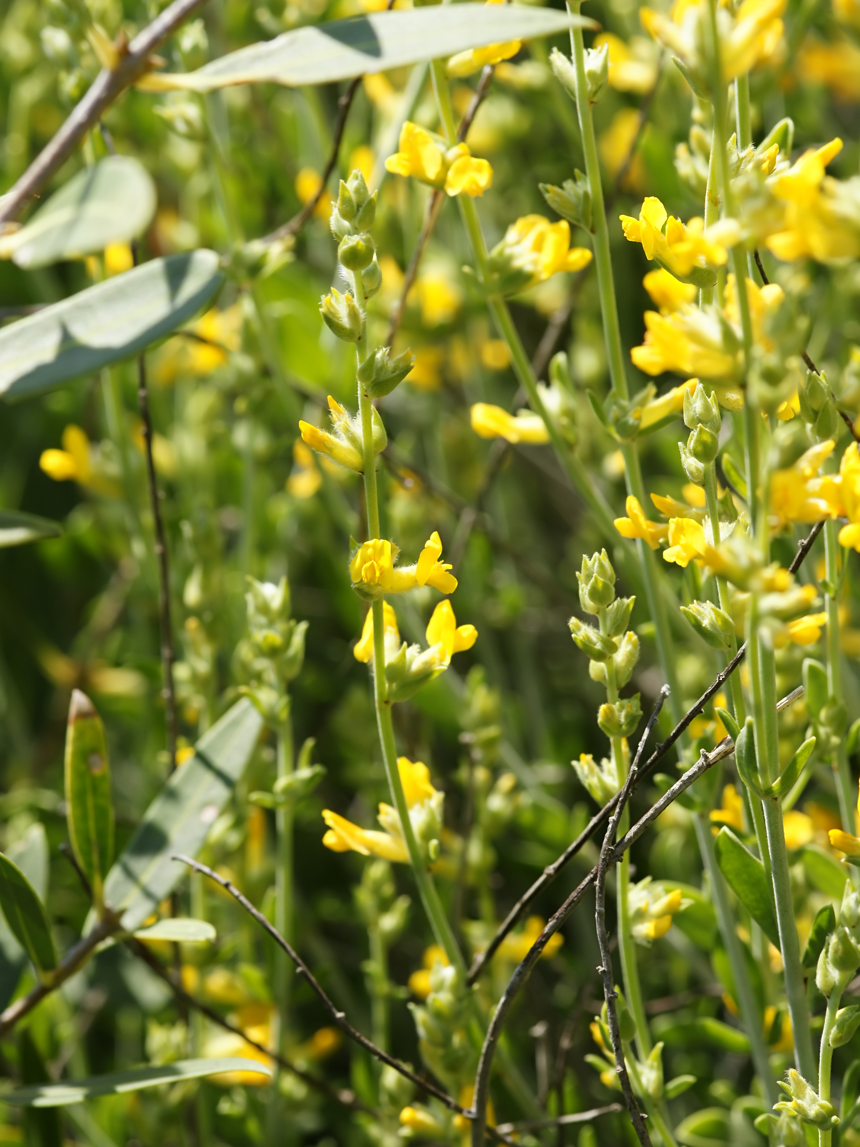 Albaida near Cala Ses Salinas, Mallorca.